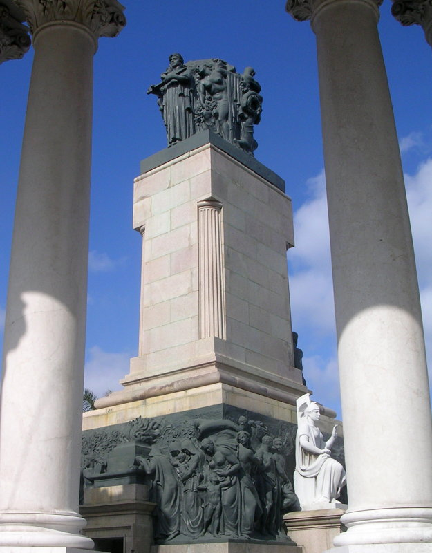 Monument José Miguel Gómez, El Vedado, La Habana, Cuba